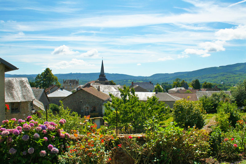 The town of Bersac seen from the path of Lage-Ponnet